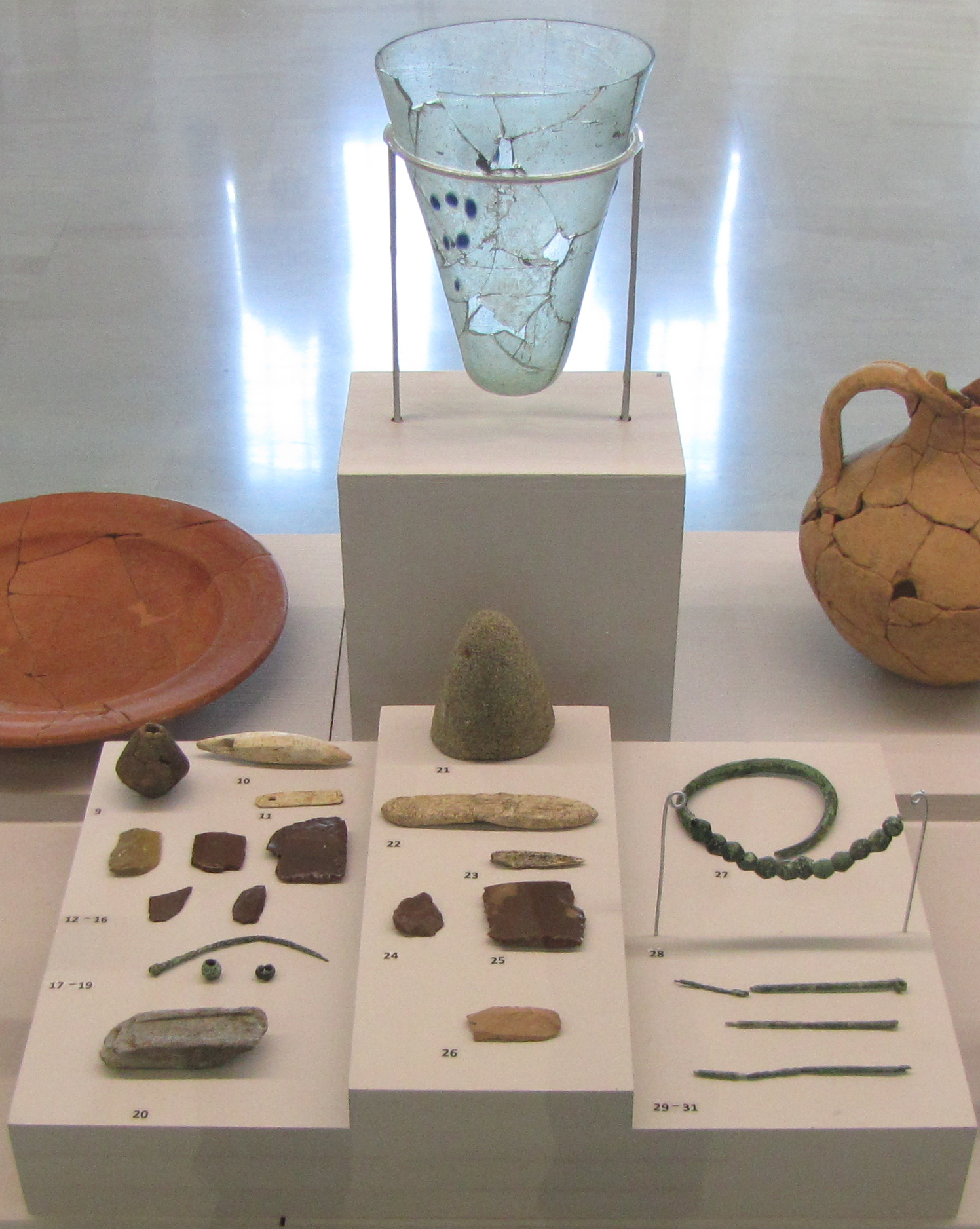 Burial objects, Source of Athene